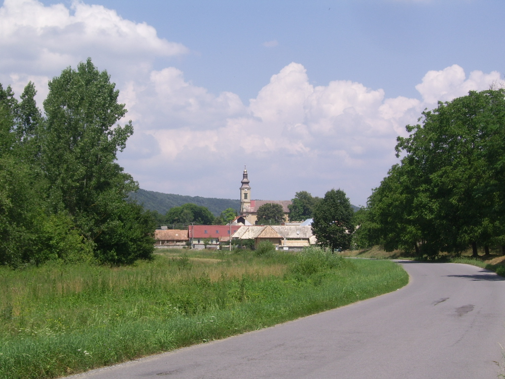 Dolné Rykynčice, (part of Rykynčice) Slovakia